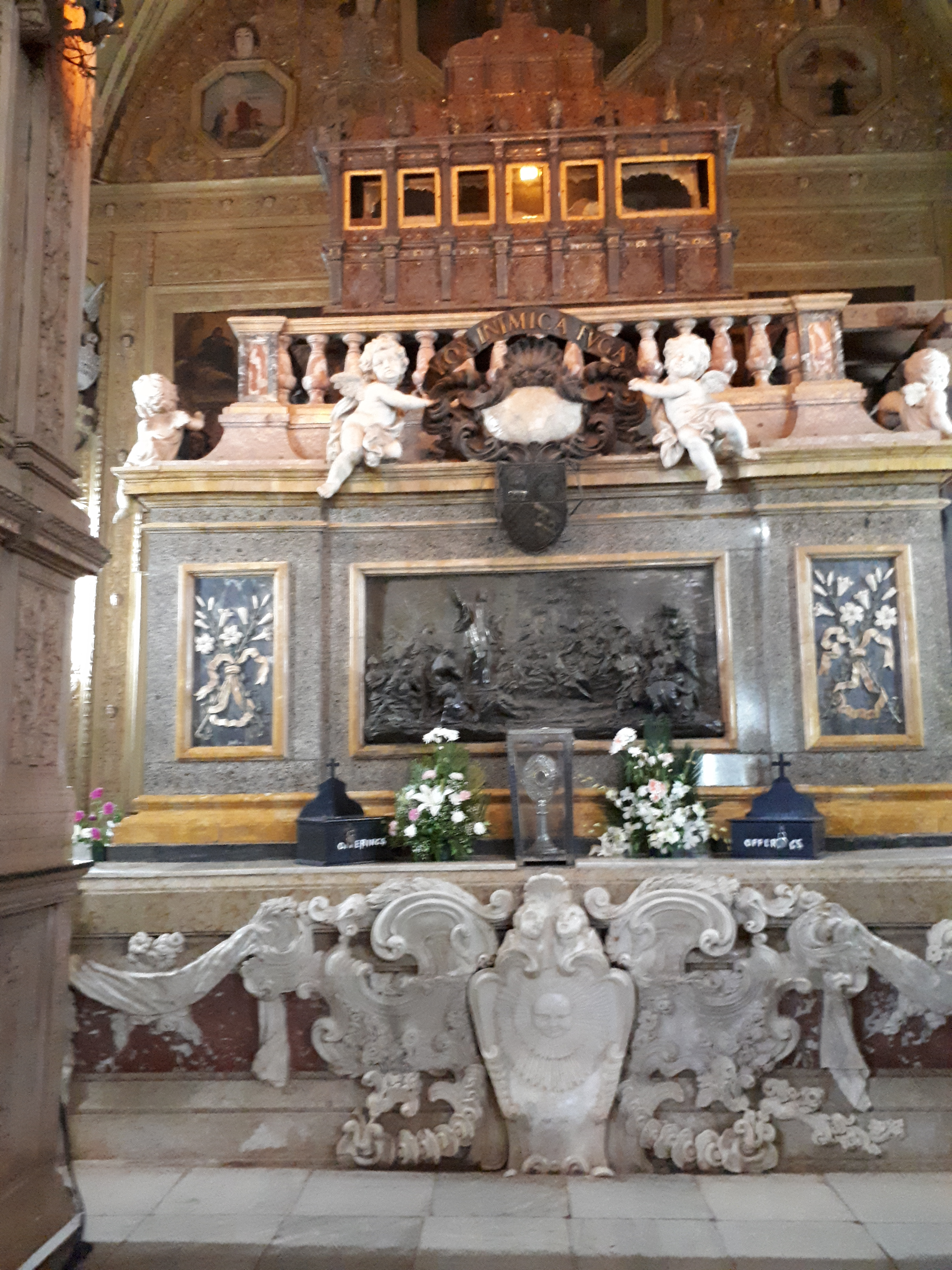 The image shows the location in the church where the sacred body of St. Francis Xavier is preserved wtihout any chemical formulas. It is brought down once in every 4 years.